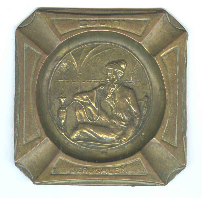 Description: Ashtray Artist: Raban, Zeev Date: 1906-1929 Medium: brass Persistent URL: Repository: Accession number: 2008.119 Rights Information: No known copyright restrictions; may be subject to third party rights. For more copyright information, click See more information about this image and others at